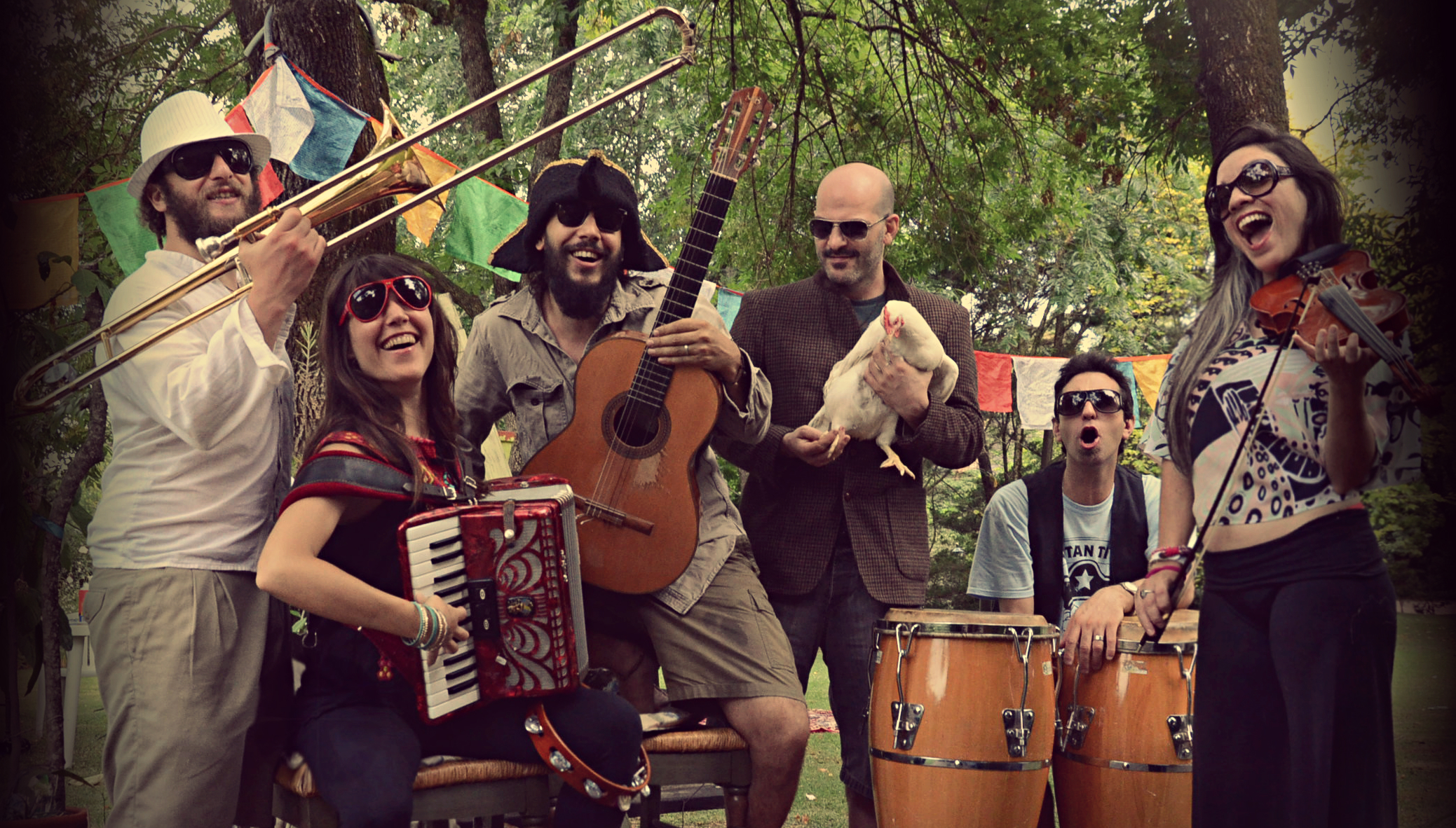 La Fanfarria del Capitán, band photo 2014